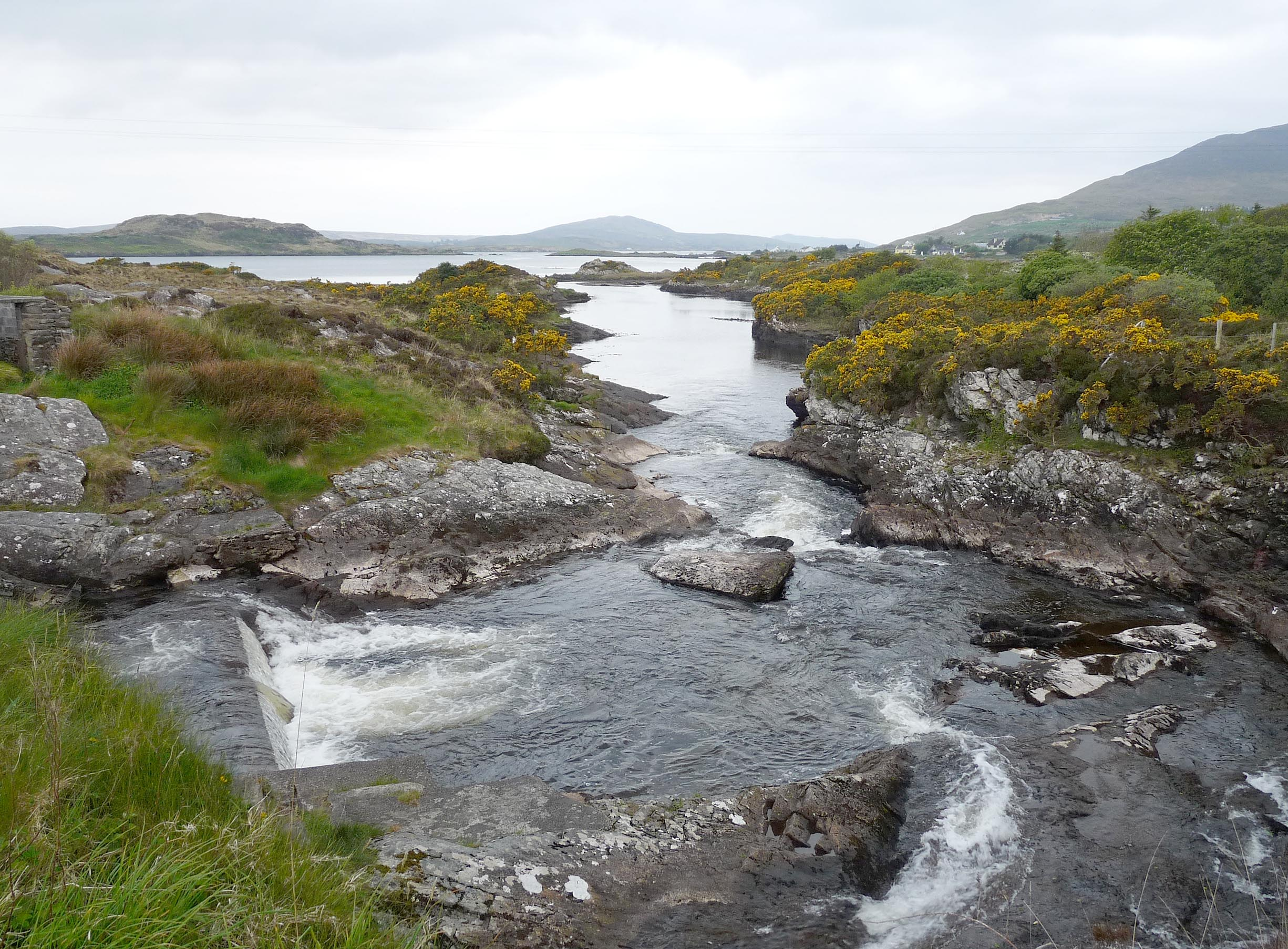 Dawros River 44